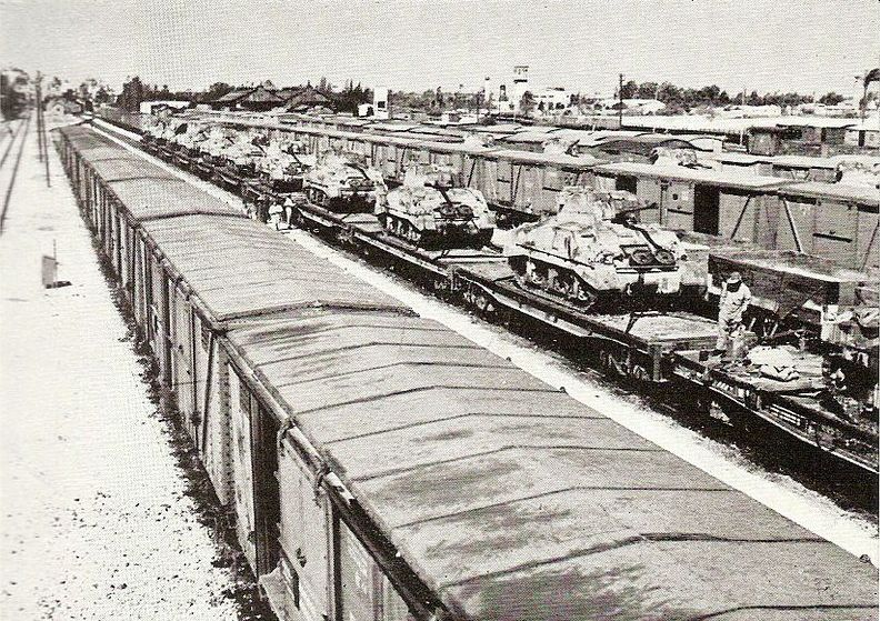 British military traffic in Haifa East freight yard, Palestine Railways, 1946